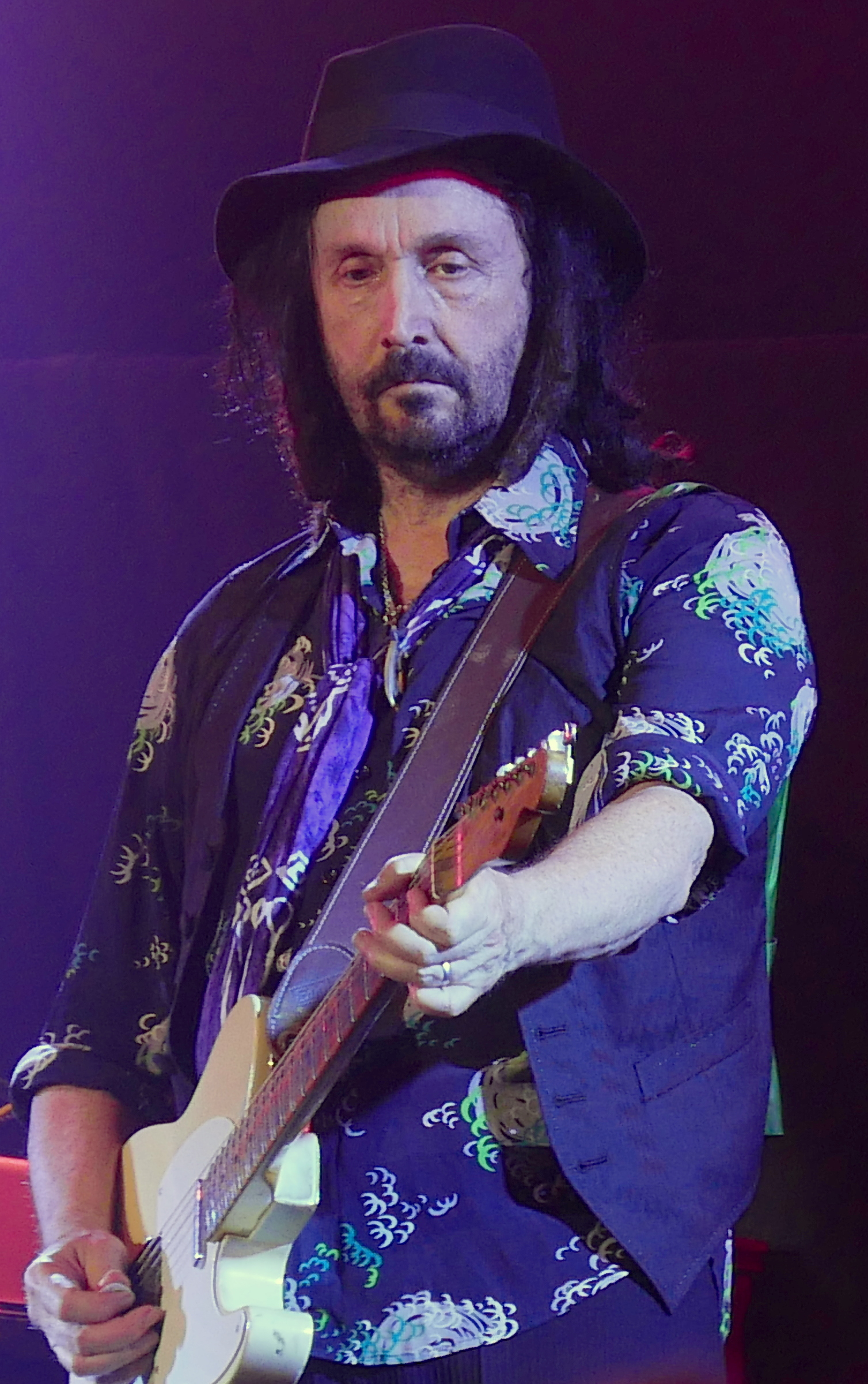 Mike Campbell performing with Mudcrutch on June 20, 2016 at The Fillmore, San Francisco